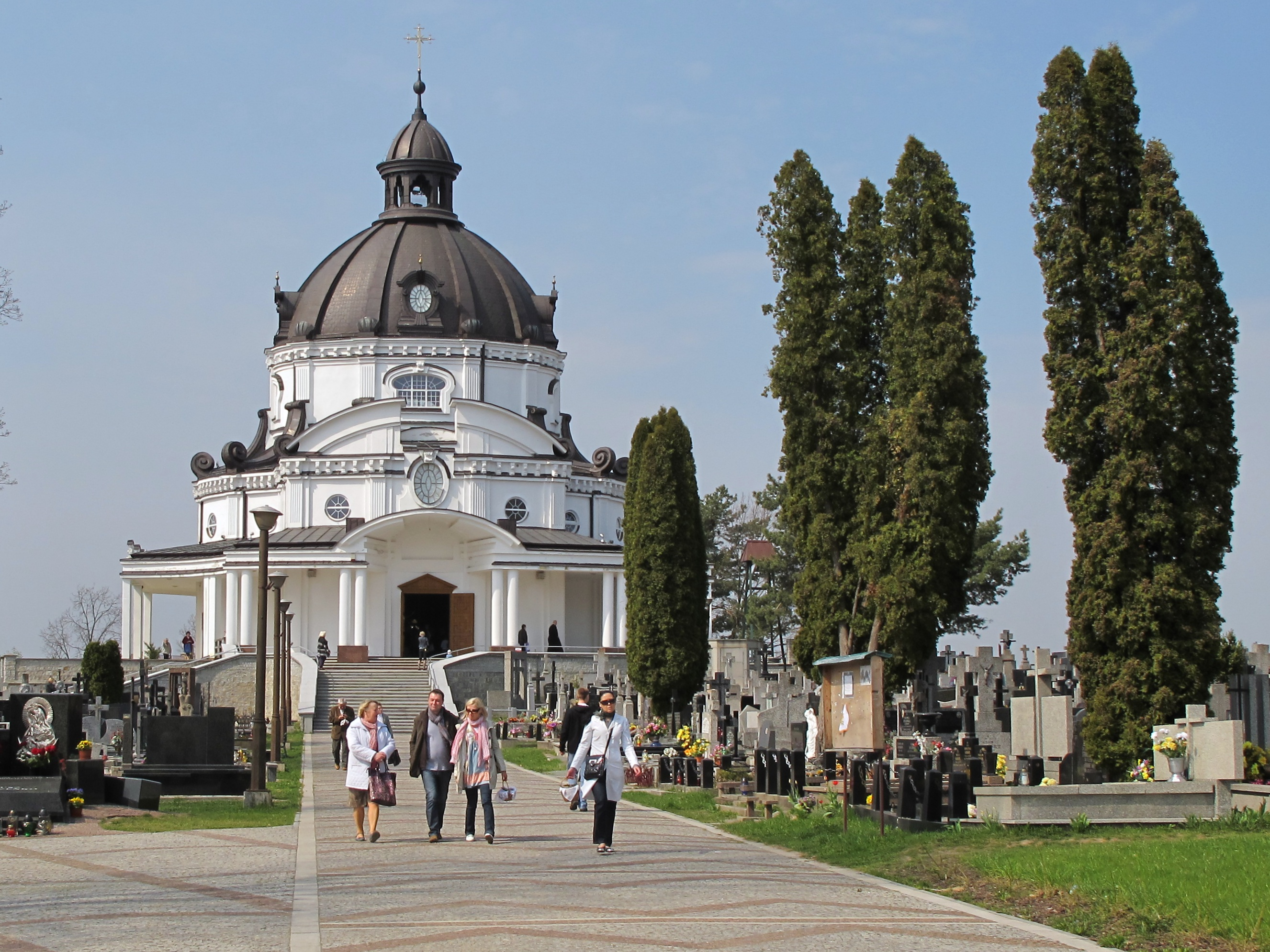 Catholic church of the All Saints in Białystok, Poland